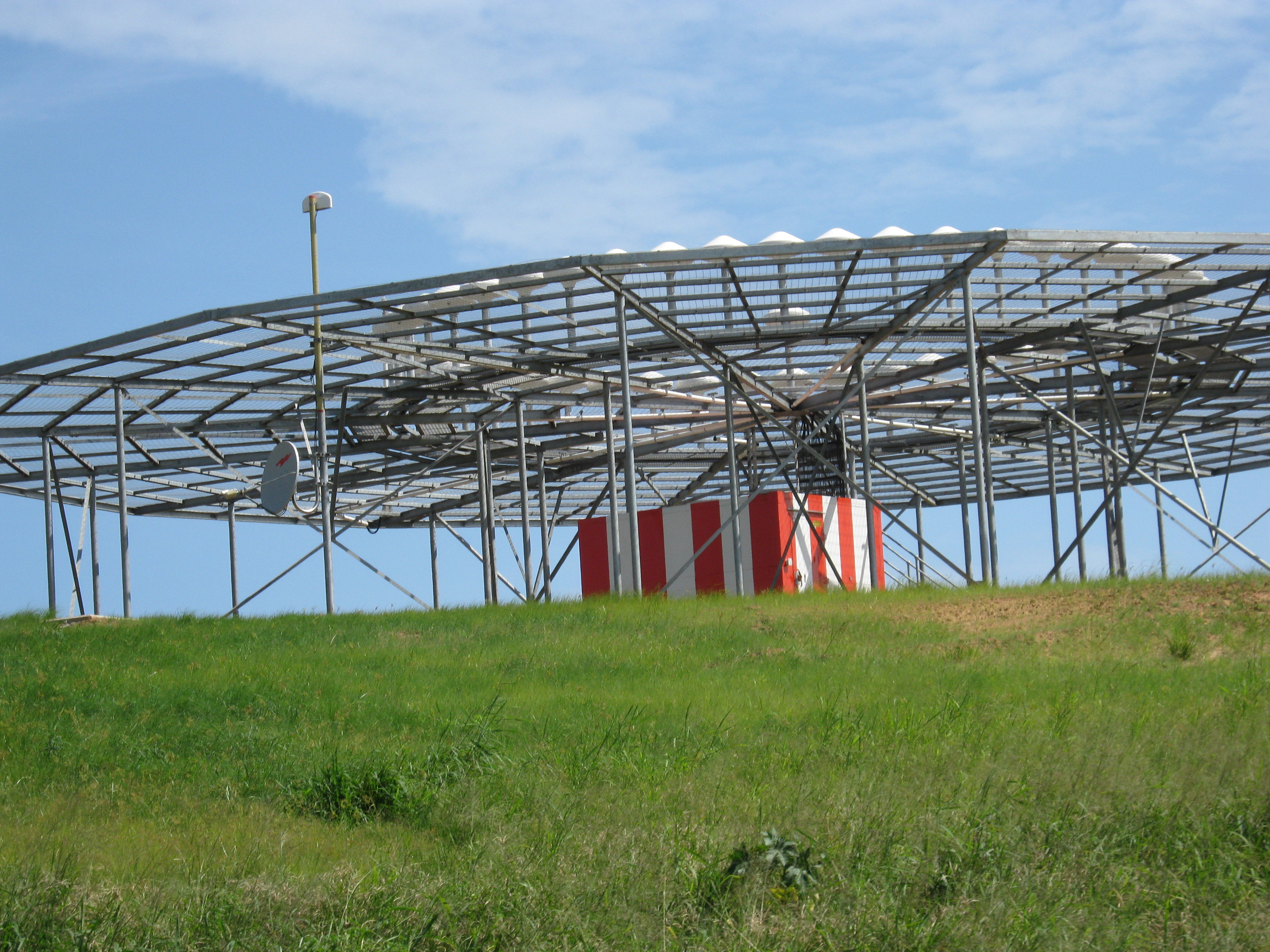 D-VOR/DME ground station. Identification "DUR" (Durban-King Shaka International).